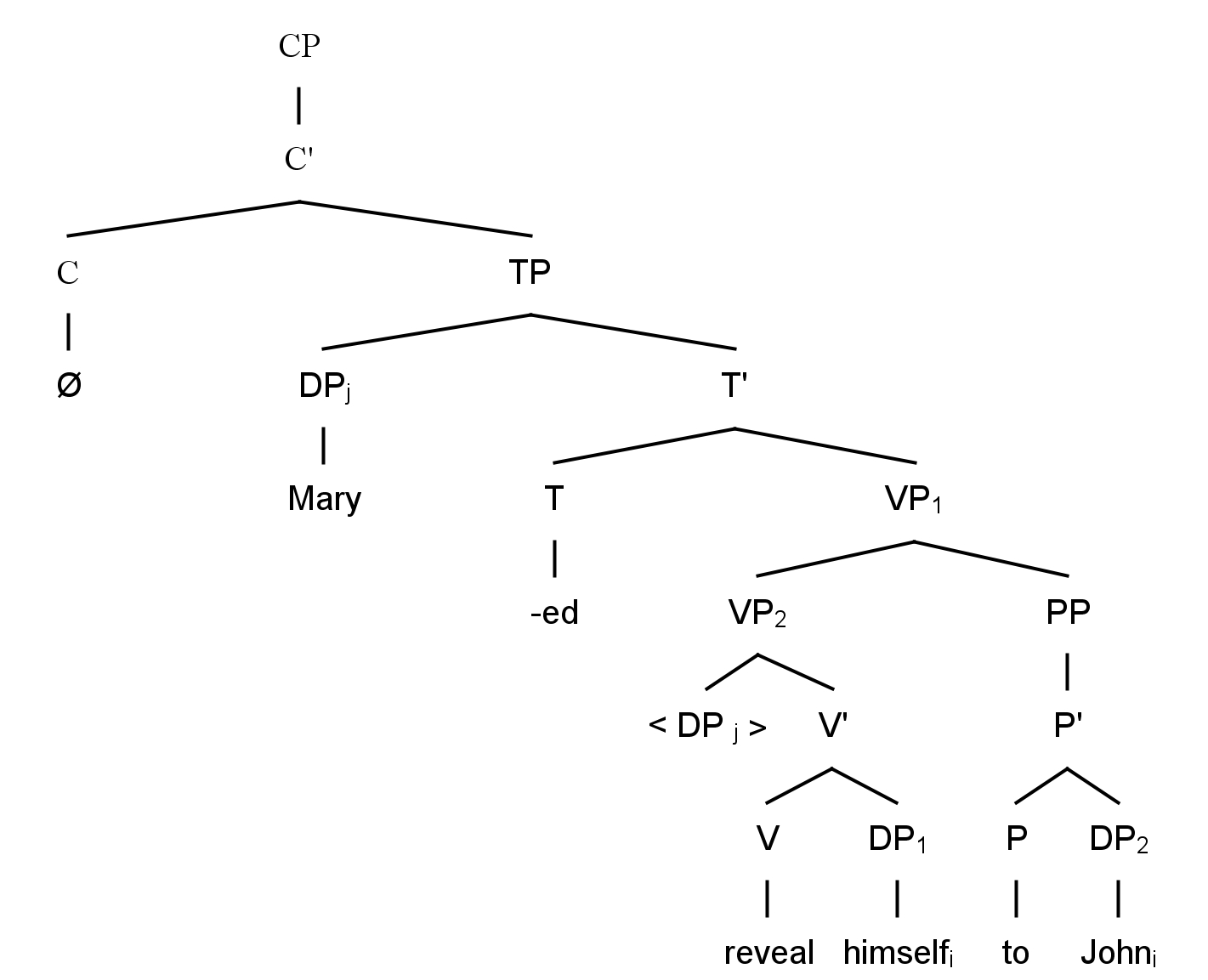 Syntactic tree demonstrating a violation to Binding Theory, Principle A.